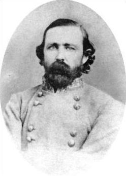 George Earl Maney